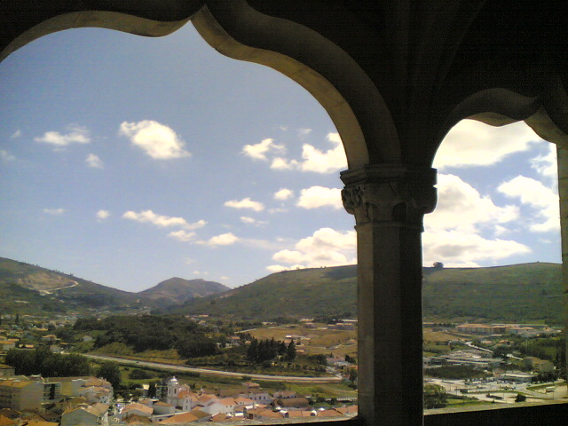 Window from the castle of Porto de Mós, in Portugal.